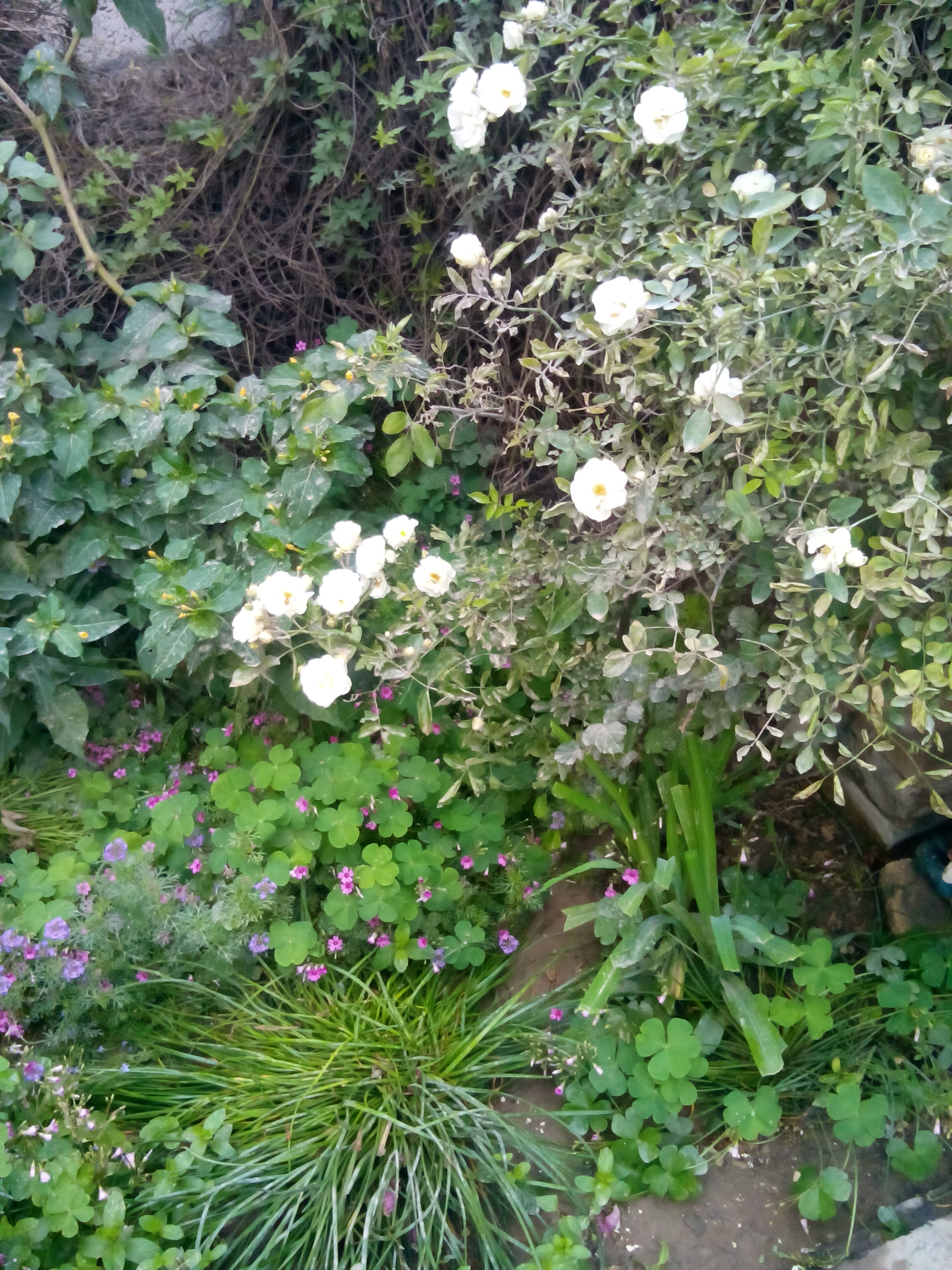 Wight Flowers in the Garden